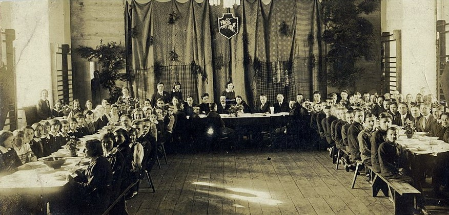 Celebrating of anniversary of Belarusian People’s Republic establishing in Bielarusian gymnasium in Vilna (now Vilnius). March 25th, 1935, Vilna (Vilnius). Published in Vilnius in 1935. Беларуская (тарашкевіца): Сьвяткаваньне ўгодкаў утварэньня Беларускай Народнай Рэспублікі ў Віленскай беларускай гімназіі. 25 сакавіка 1935 году, Вільня.